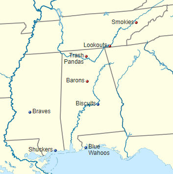 Map showing the locations of the baseball teams playing in the Southern League